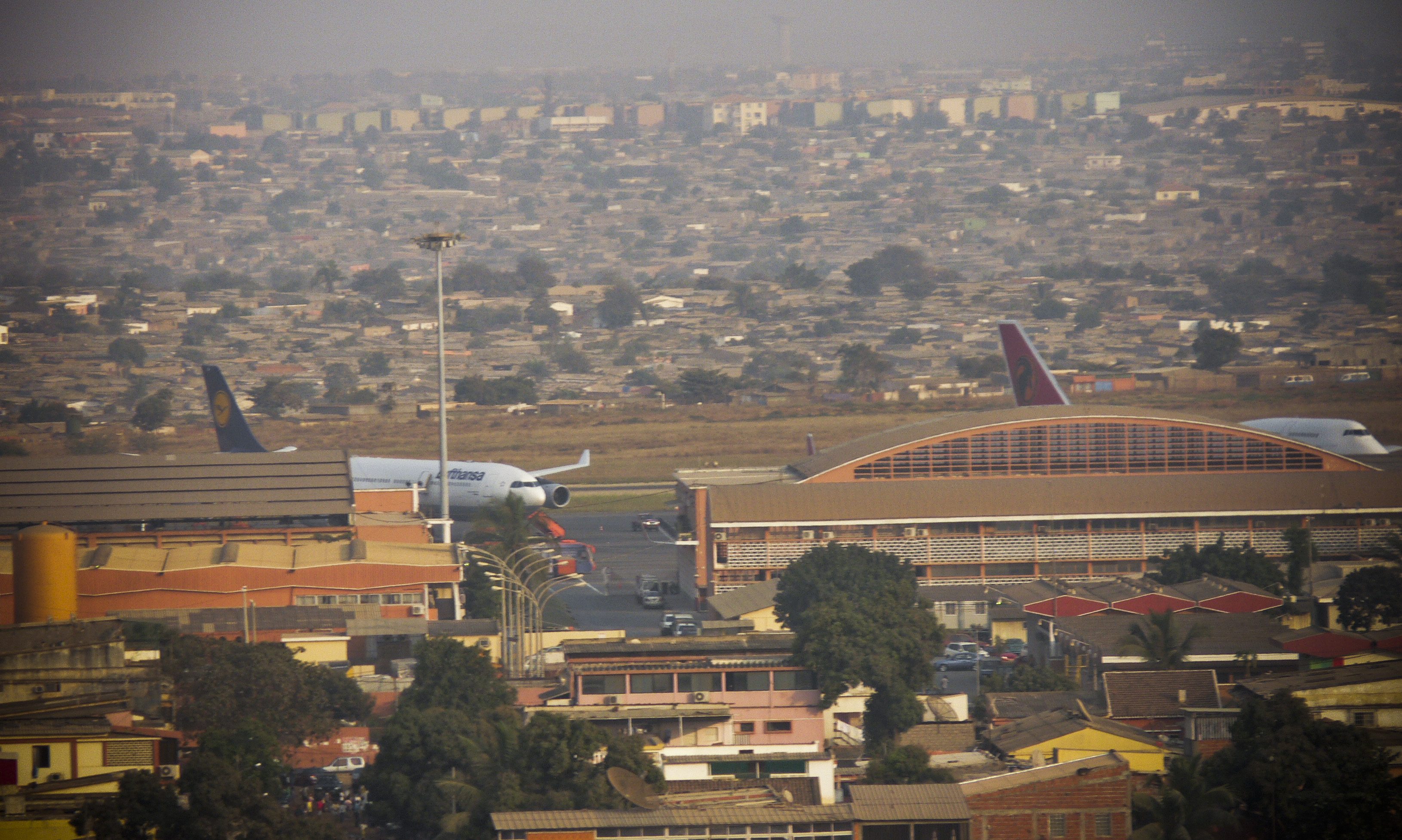 View of Aeropuerto 4 de Fevereiro in Luanda, Angola with a Lufthansa Airbus A340-300 and an Angola Airlines Boeing 747-400